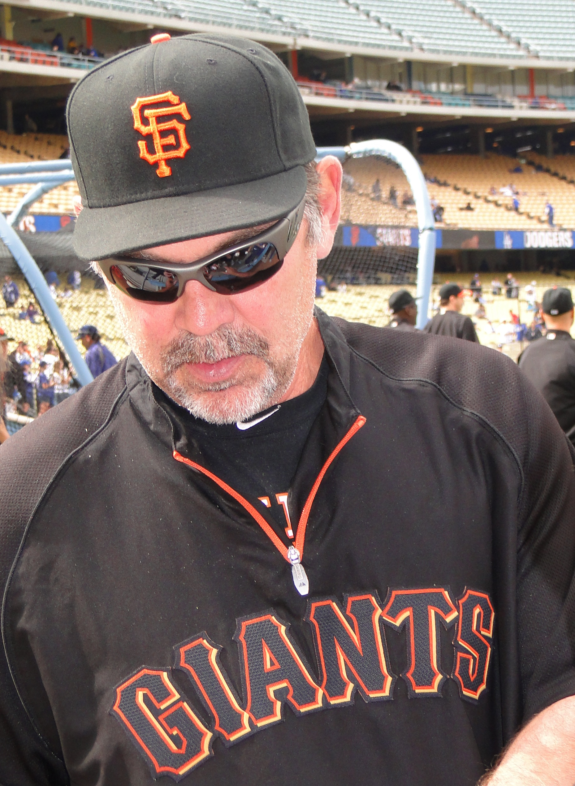 Bruce Bochy at Dodger Stadium.